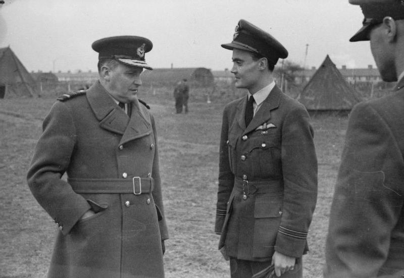 Royal Air Force 1939-1945- Fighter Command Air Marshal Sir William Sholto Douglas, C-in-C Fighter Command, with Flight Lieutenant Brian Kingcome during a visit to No 61 OTU at Heston, November 1941.